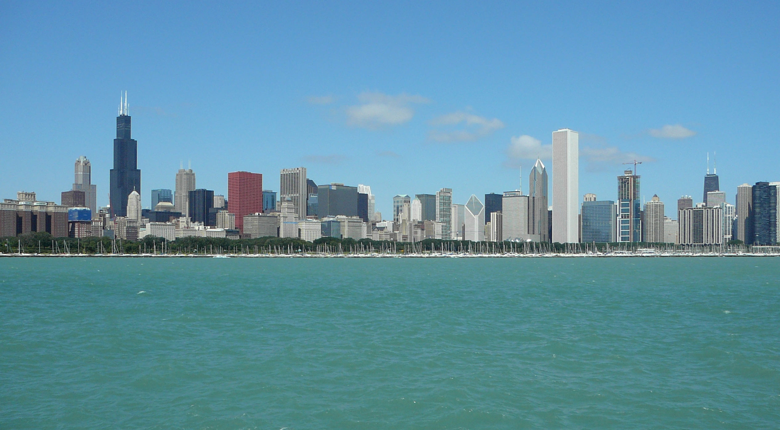 Chicago skyline by Flickr user jimcchou